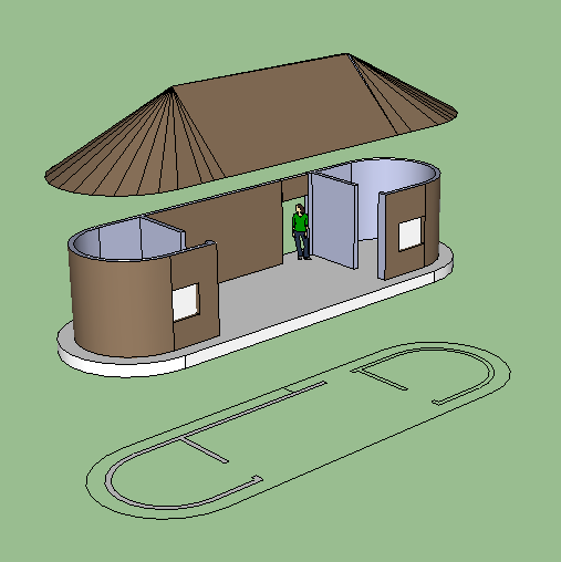 Kulata Jovai House with round walls